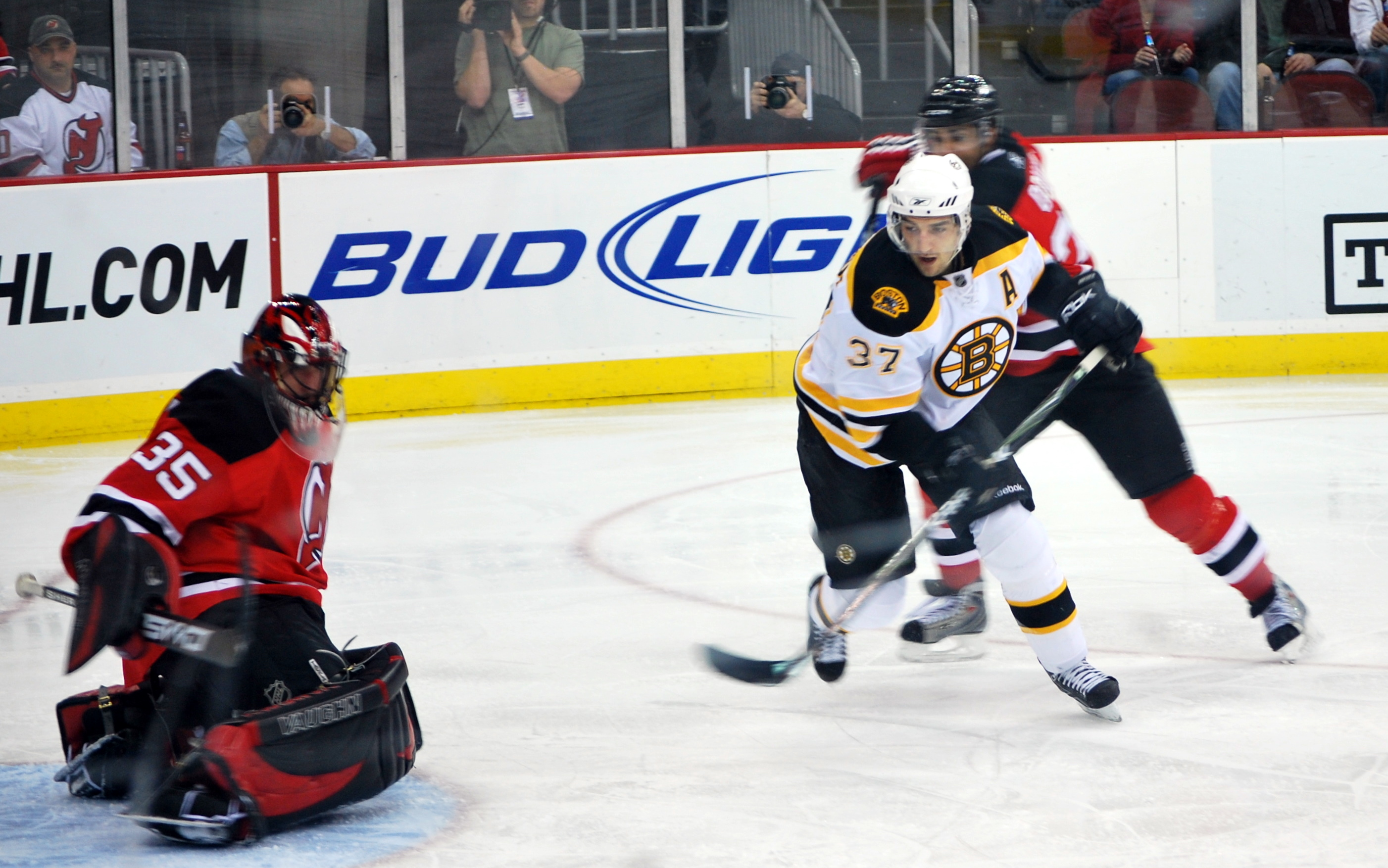 Boston Bruins forward Patrice Bergeron (#37) skates towards the net, tended by New Jersey Devils goaltender Scott Clemensen (#35) during a game on February 13, 2009, at Prudential Center in Newark, New Jersey.